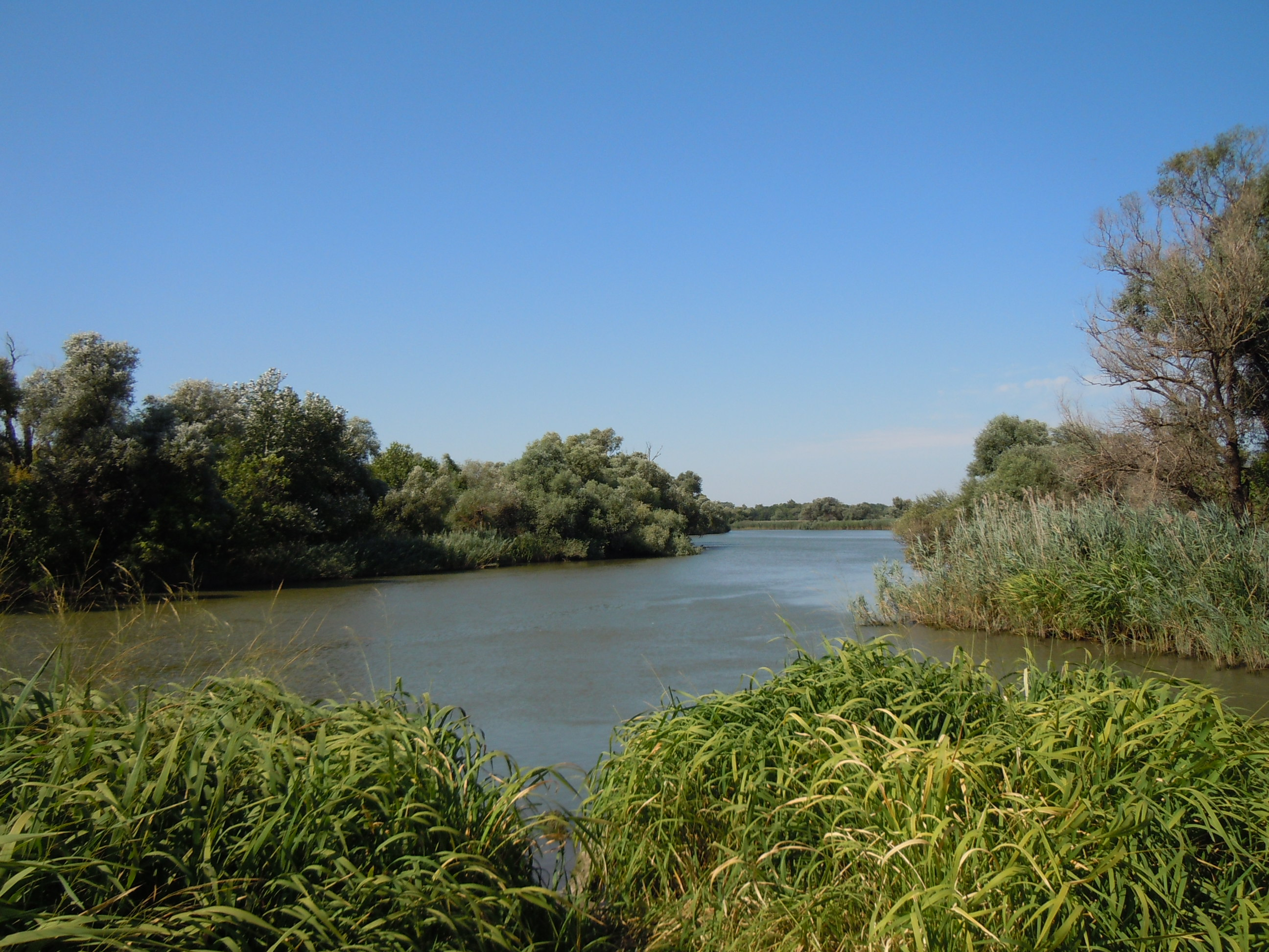 The Turunchuk River is the left branch of the Dniester River. Near the City of Bilyayivka